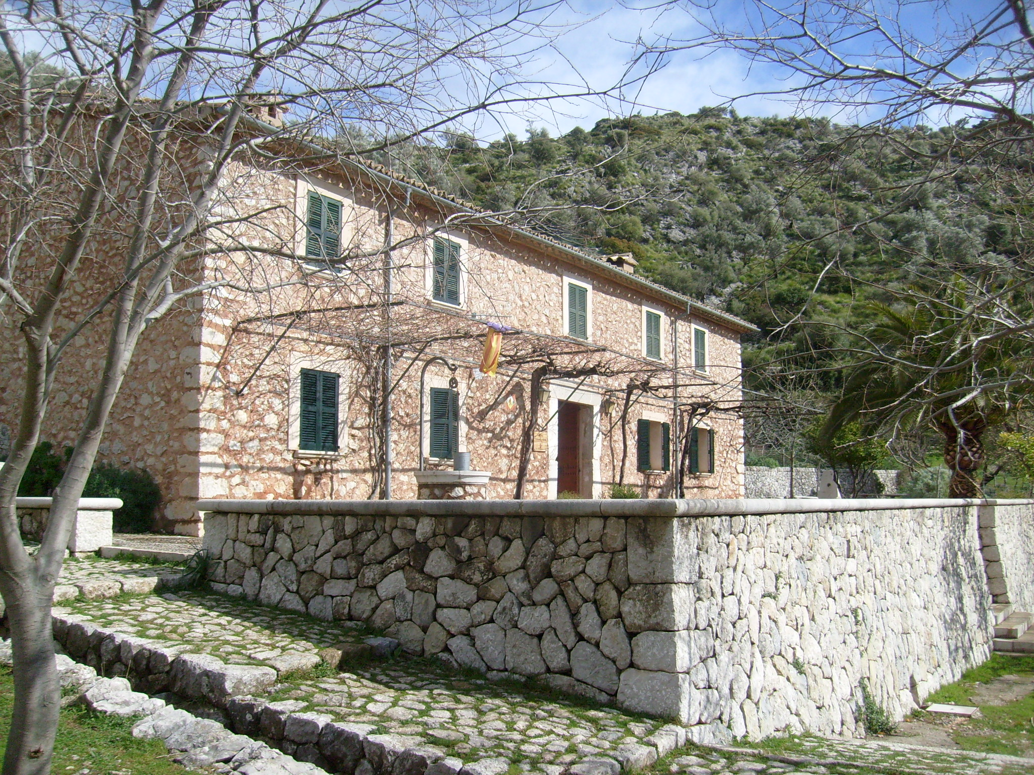 GR 221: Refugi Tossals Verds, Spain. Stone building with pergola trellised with grape vines (dormant), and stone walls and patio.